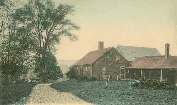 Horace Greeley Birthplace, Amherst, NH; from a c. 1905 postcard.